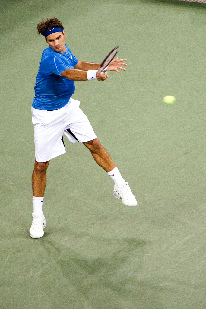 Federer playing James Blake in the quarterfinals of the 2006 US Open.